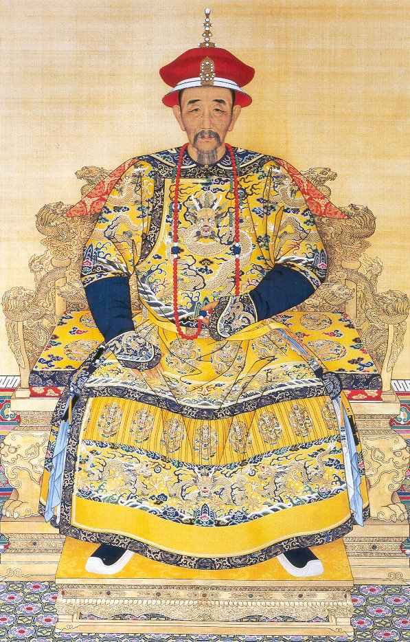 Portrait of the Kangxi Emperor in Court Dress